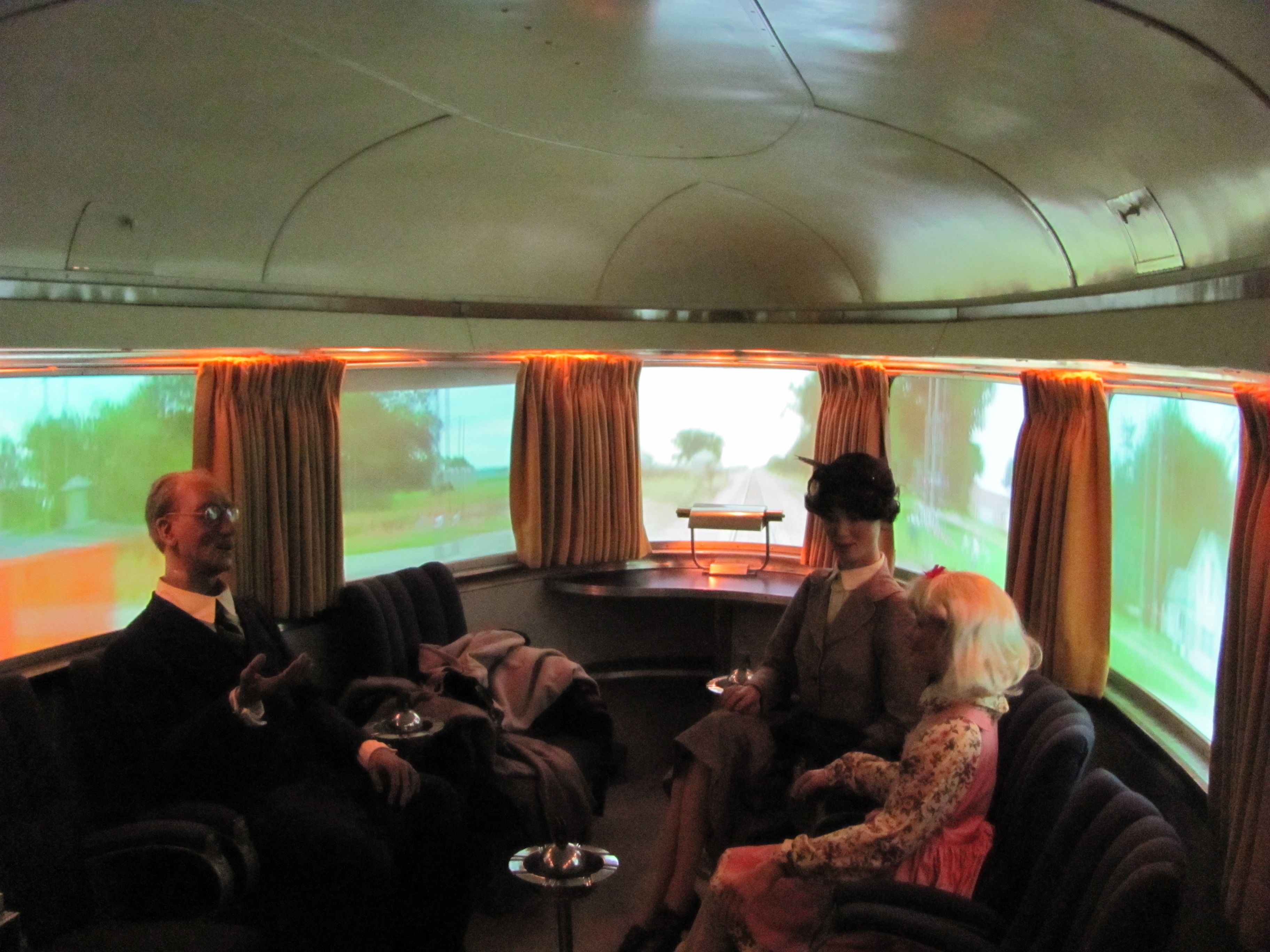 Burlington Zephyr in th Museum of Technic and Industry, Chicago: rear end observation lounge